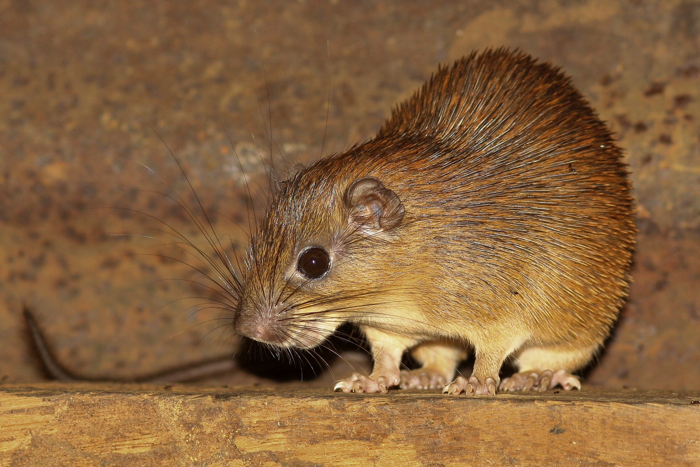 A female of the Ferreira's spiny tree-rat (Mesomys hispidus)